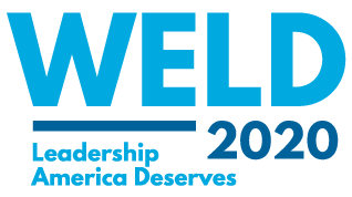 The logo of Bill Weld 2020 presidential campaign